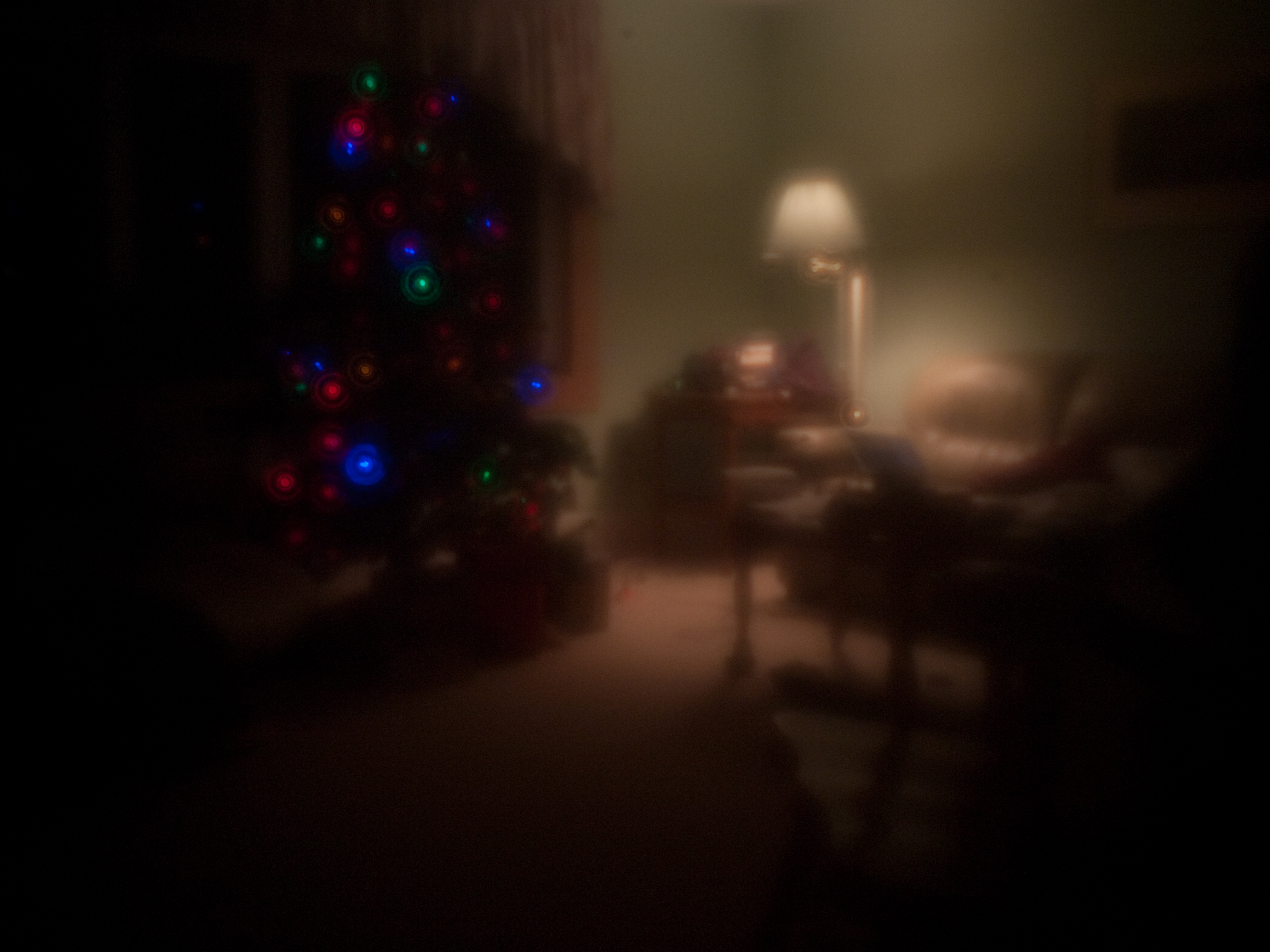 Photo taken with a zone plate instead of a lens.